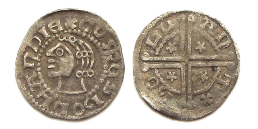 Holland, Penny or 'kopje' of Floris V, Count of Holland (1256-1296), minted during his minority under the guardianship of his uncle Floris de Voogd (1256-1258).